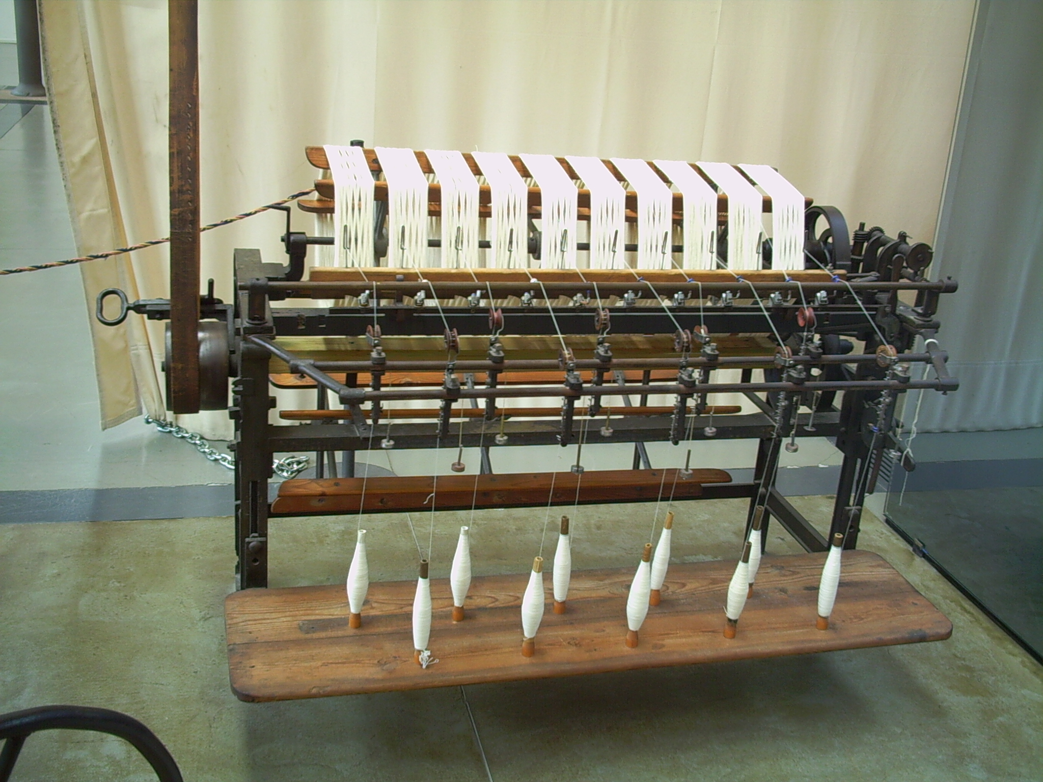 Reeling machine, at the mNATEC, Terrassa, (Catalunya).